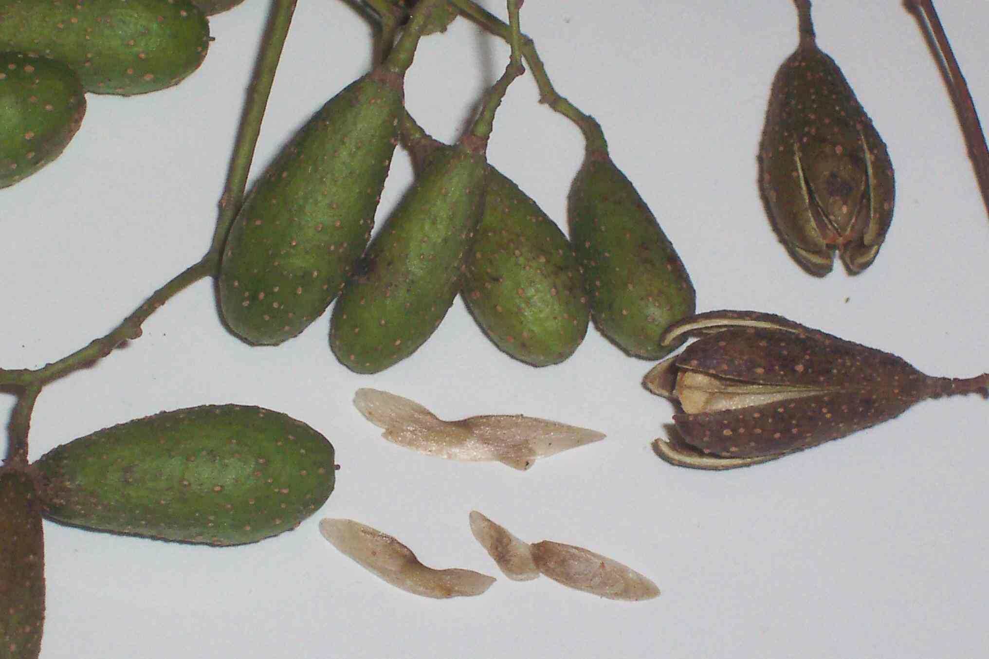 Toona ciliata, capsules_and_seeds seed source: Cedar Brush Creek, near Wyong, NSW